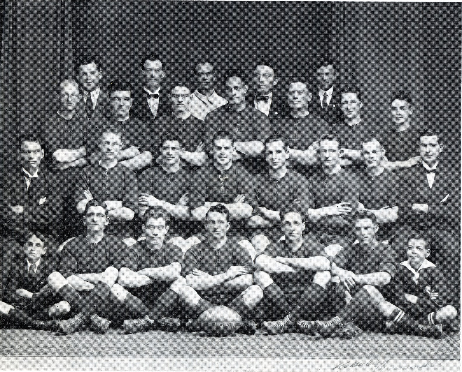 Winners Auckland Rugby League Senior Championship 1924